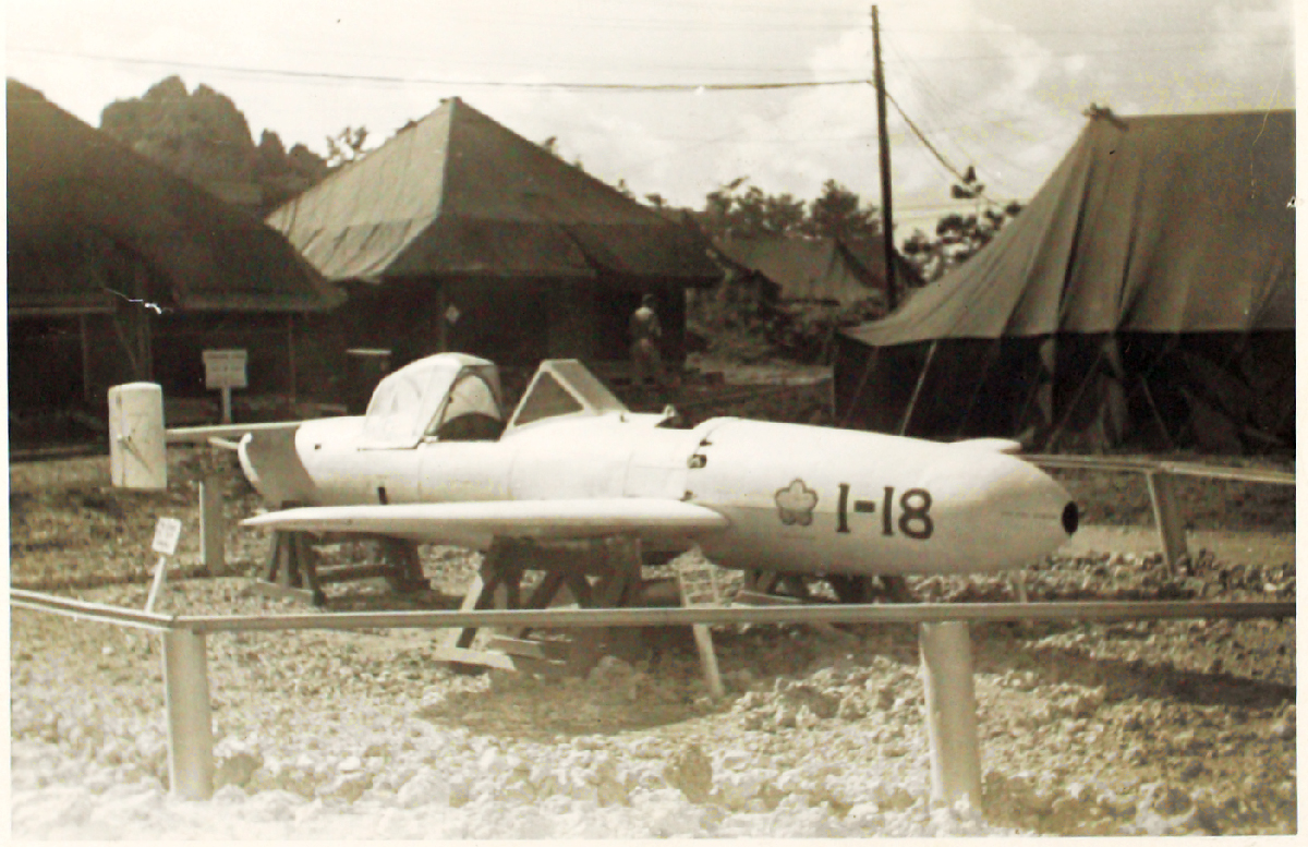 Title: Yokosuka, Mxy-7, Ohka (Cherry Blossom) Notes: Japan Catalog #: 01_00089967 Manufacturer: Yokosuka Designation: Mxy-7 Official Nickname: Ohka (Cherry Blossom) Repository: San Diego Air and Space Museum Archive Tags: Yokosuka, Mxy-7, Ohka (Cherry Blossom), USSR